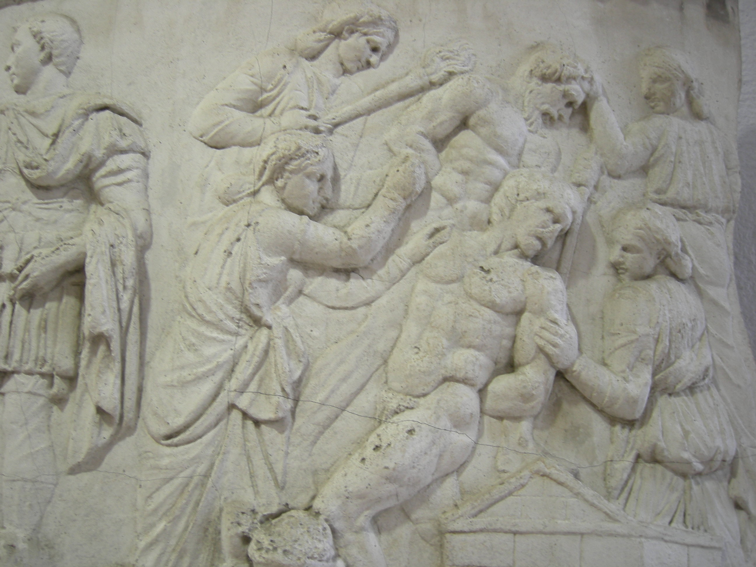 Women and captives on Trajan's Column, from the plaster-cast reproduction at the Museum of Romanian History in Bucharest, Romania. The scene is typically described as either Dacian woman torturing captive Romans, or provincial women torturing captive Dacians in revenge for depredations. See David J. Mattingly, Imperialism, Power, and Identity: Experiencing the Roman Empire (Princeton University Press, 2011), p. 117, for a summary of the two views.